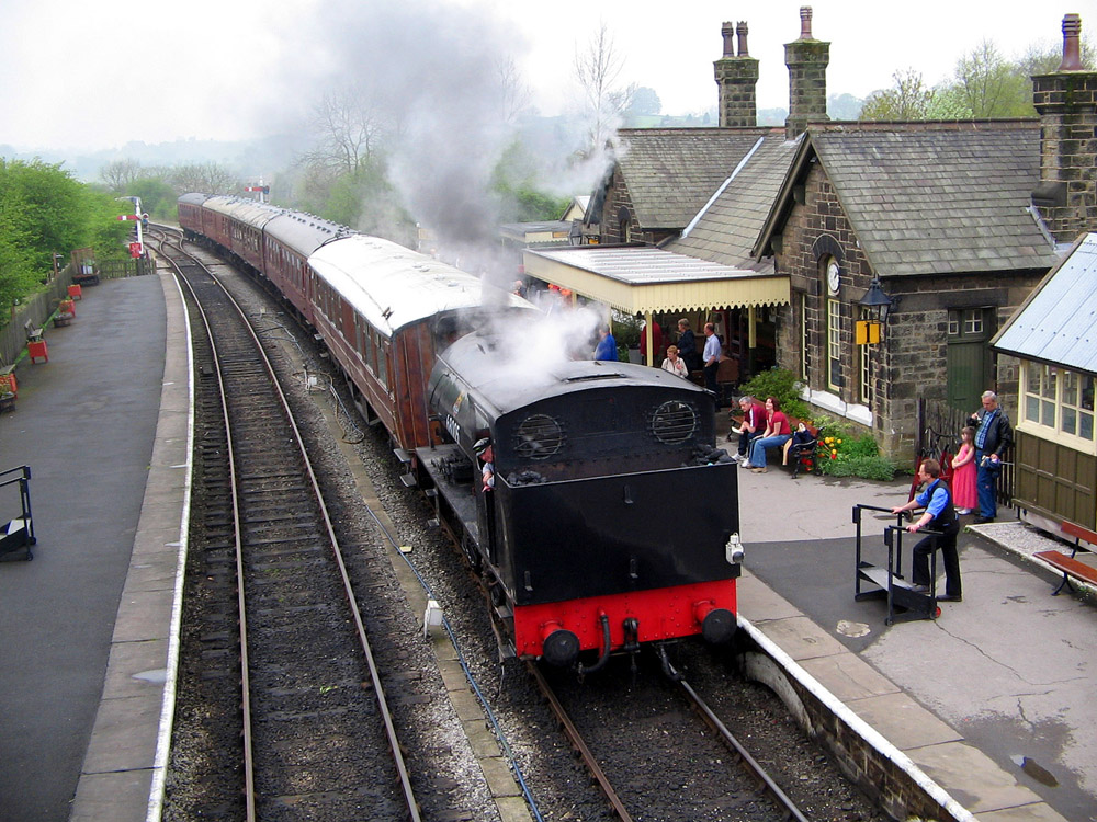 A train pulling into Embsay station on the Embsay and Bolton Abbey Steam Railway. Hunslet Austerity 0-6-0ST — Dunc